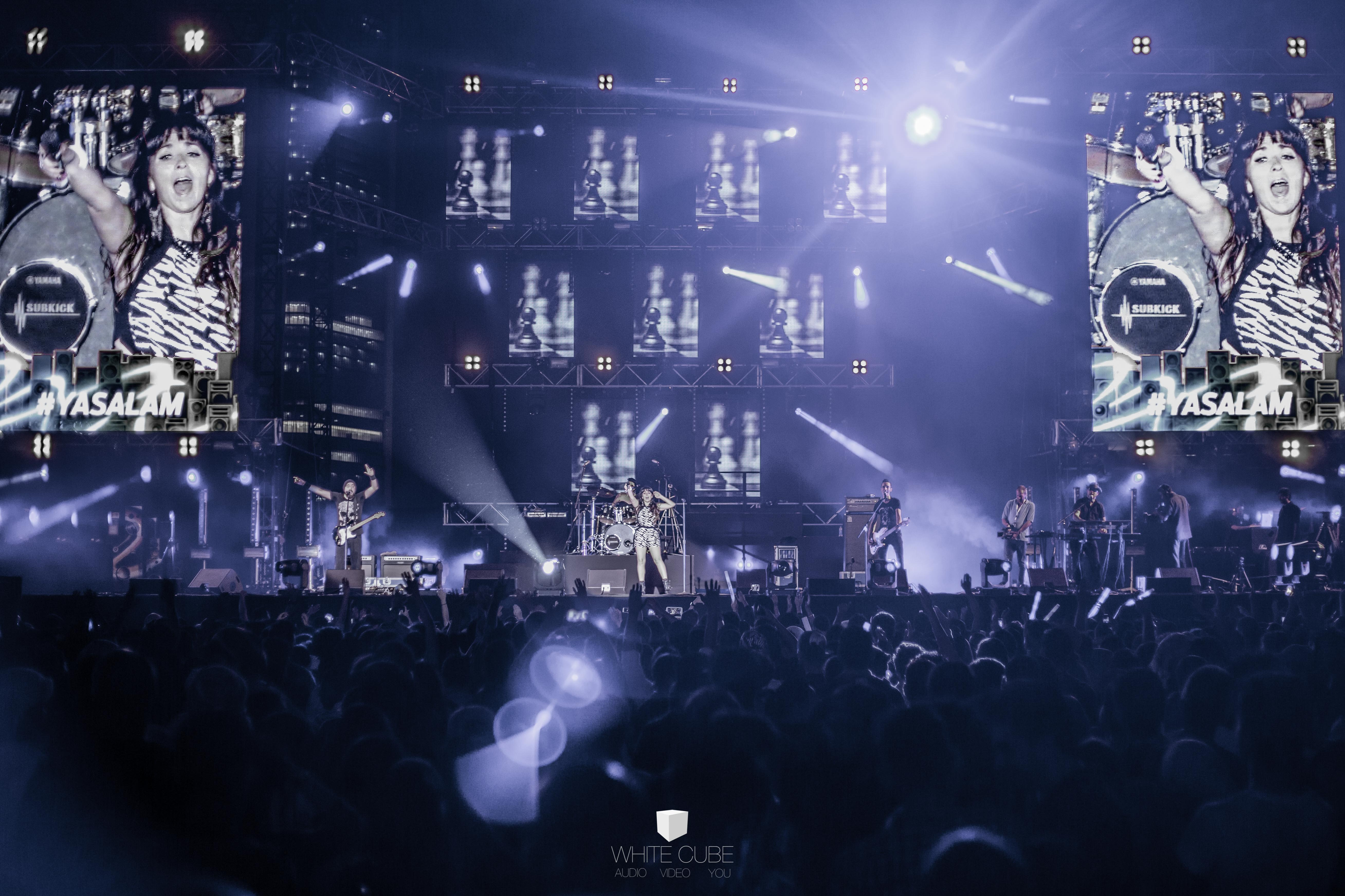 This image depict The Boxtones during their performance at Yasalam Beats on the Beach, Abu Dhabi, UAE, 21 November 2014